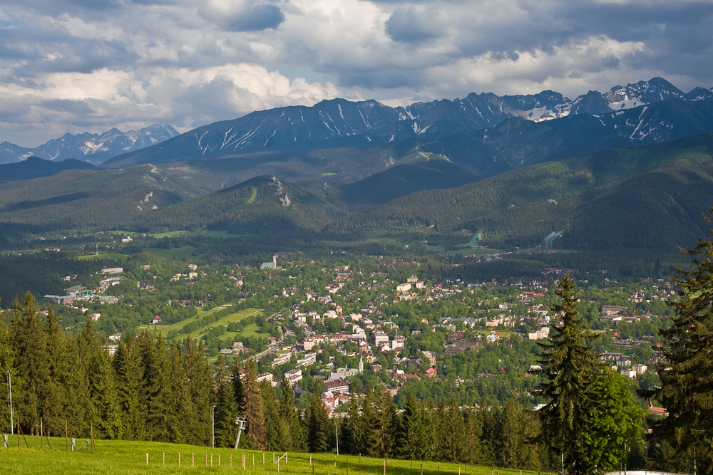 Winter View of Zakopane